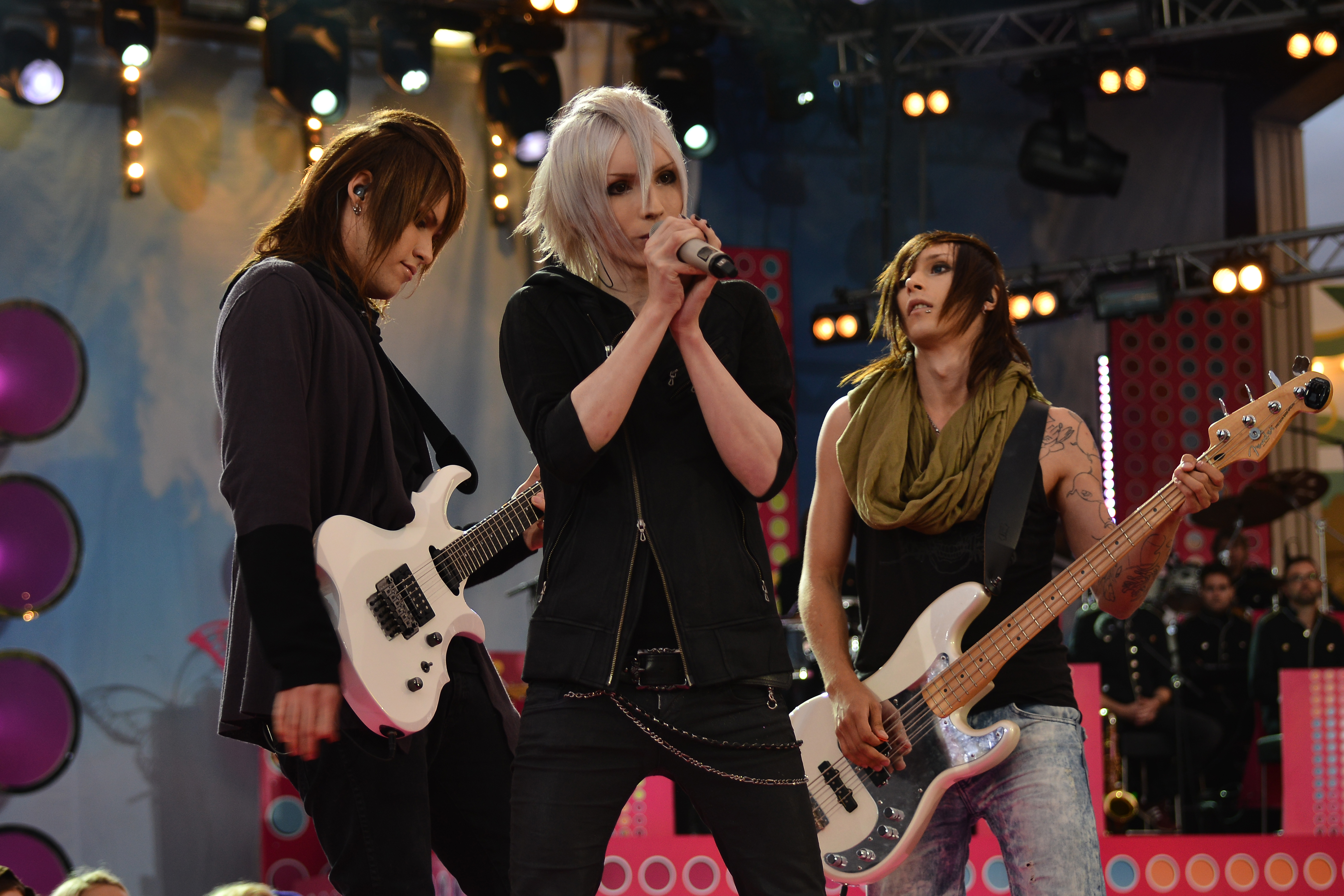 Yohio at Sommarkrysset in Sweden, Stockholm, Gröna Lund 2013